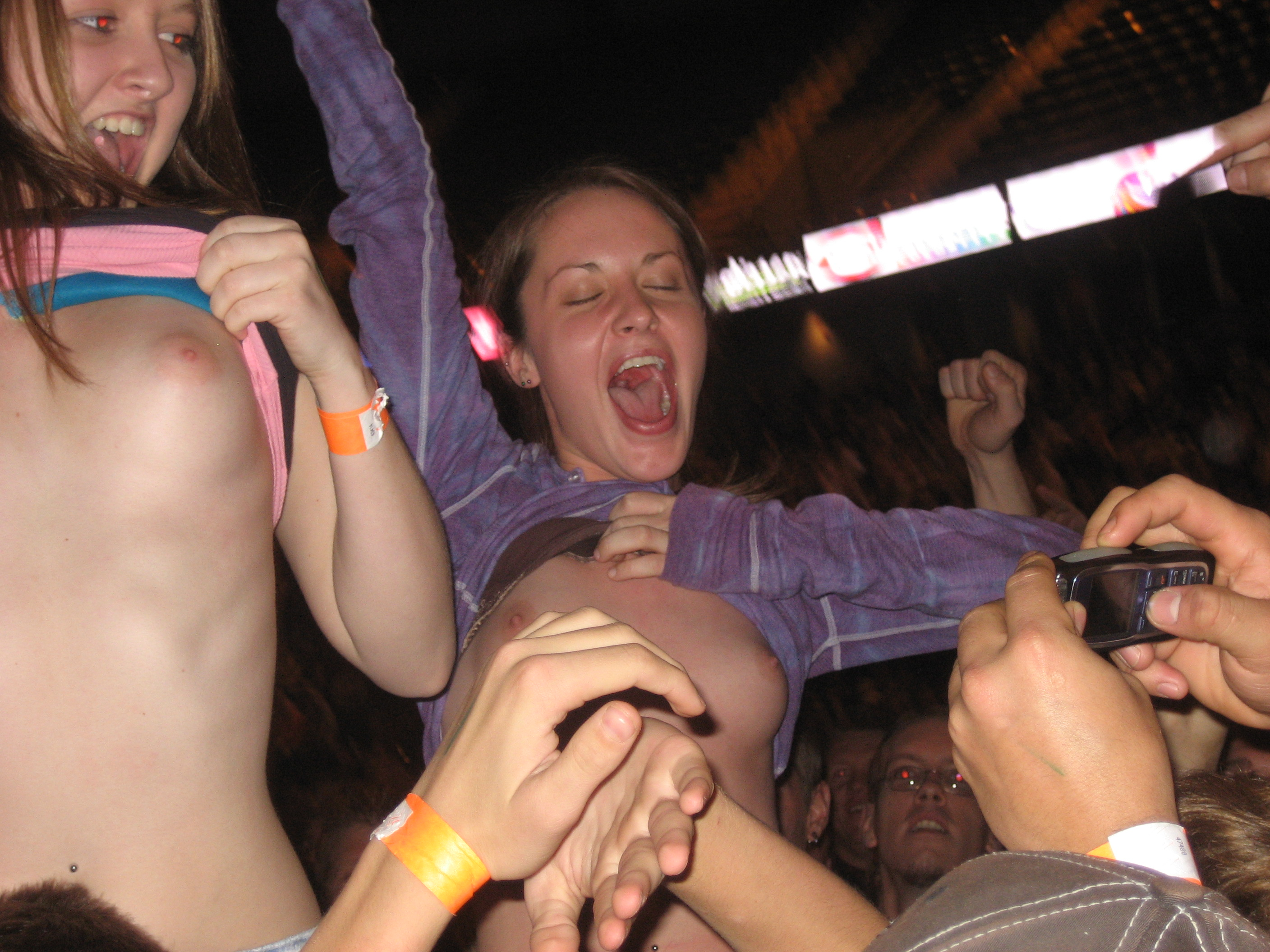 Female fans flashing their breasts at a Godsmack concert in Moline, Illinois on November 5, 2006